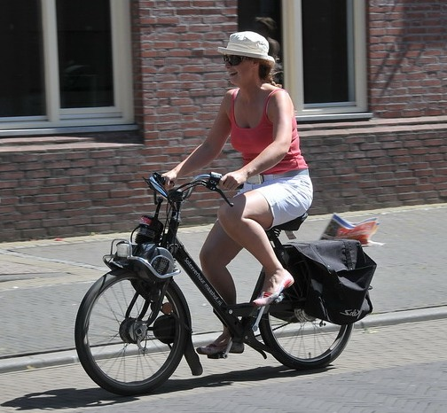 Woman riding a Black'n Roll S4800 moped, replica of the Velosolex S3800.